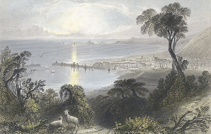 A view of showing Swansea bay and a town. Ships are sailing in the sea and a lighthouse can be seen in the background.